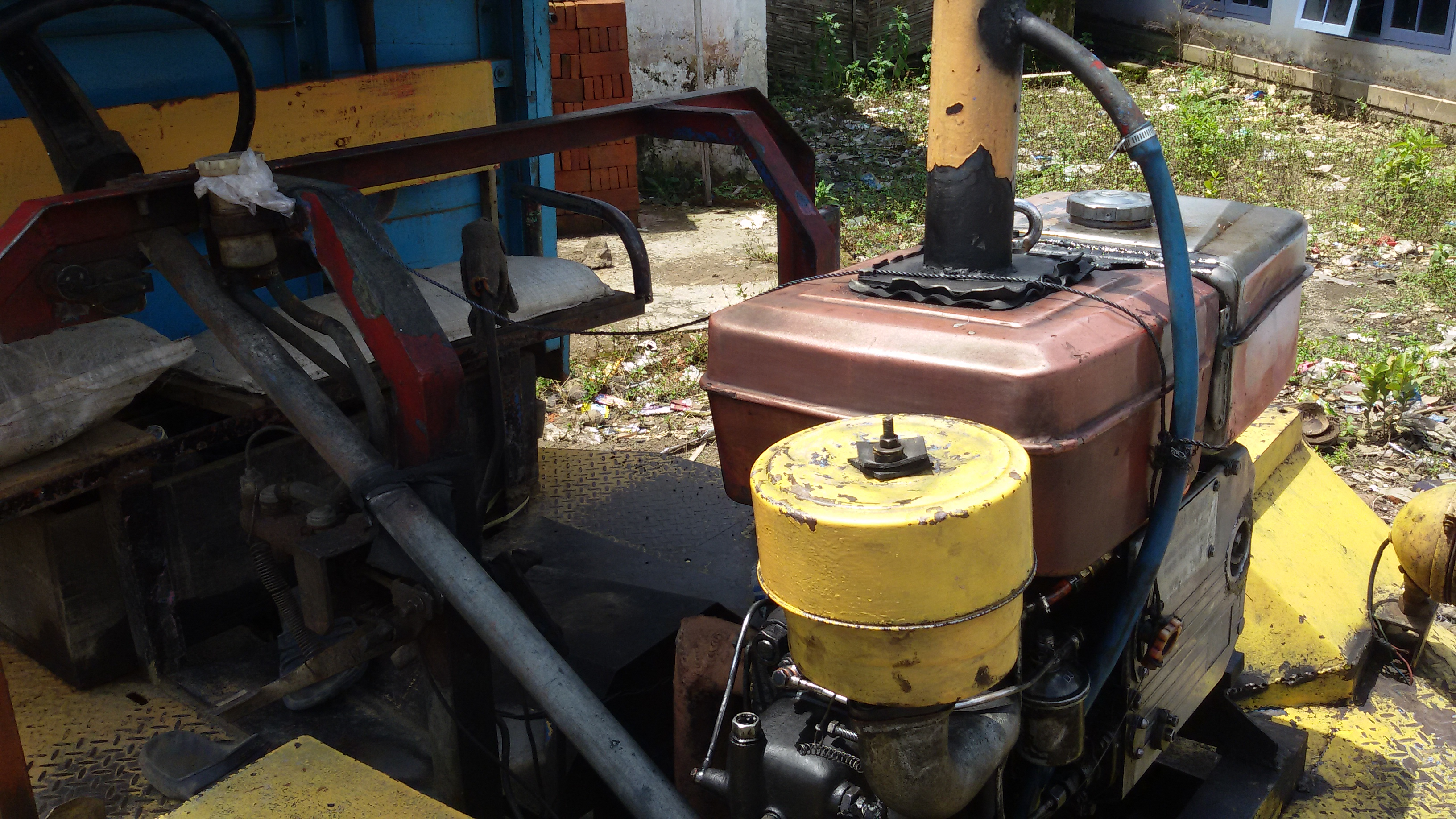 Grandong's machine